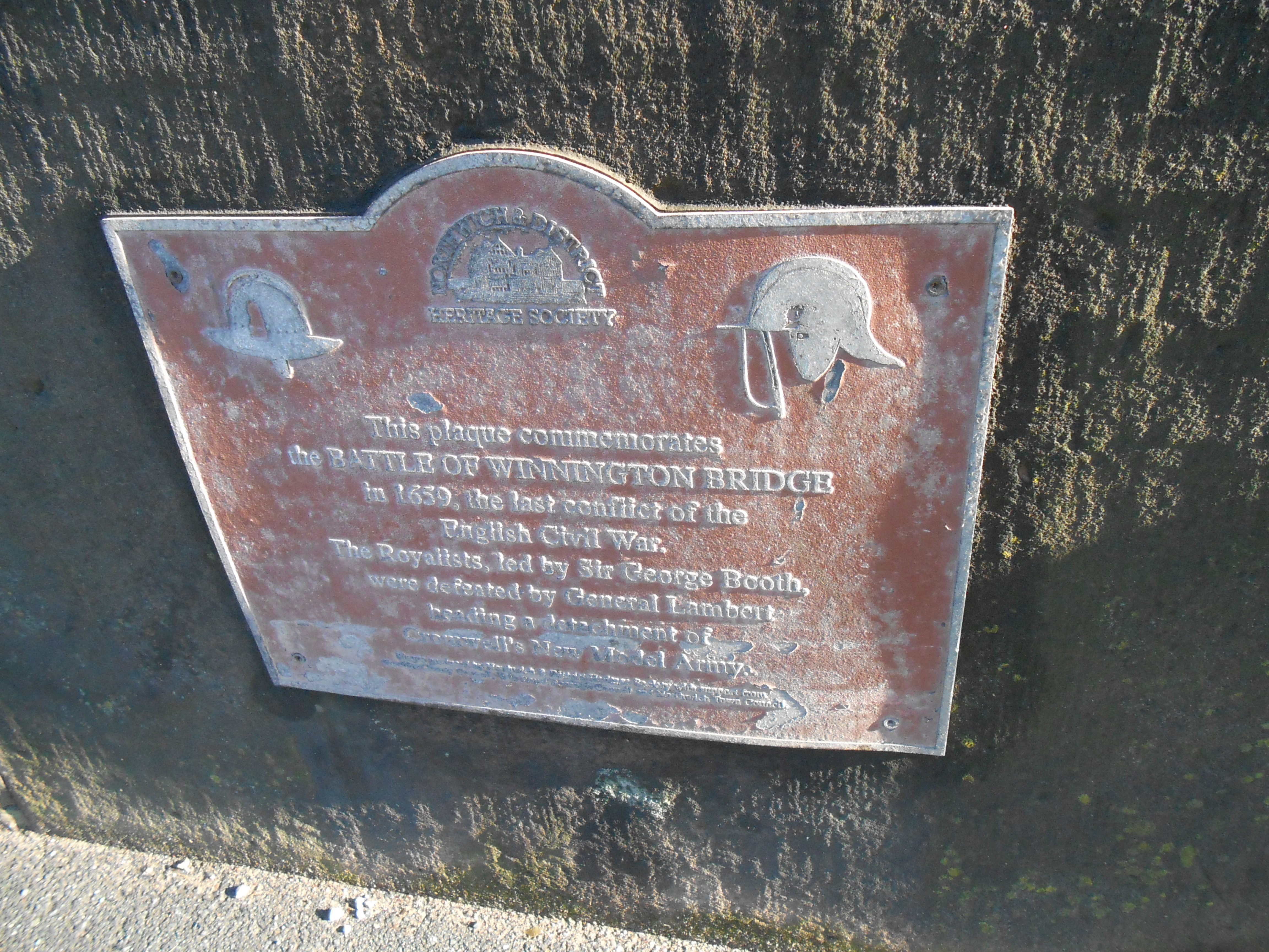 Photo taken at Winnington Bridge, Cheshire, England.